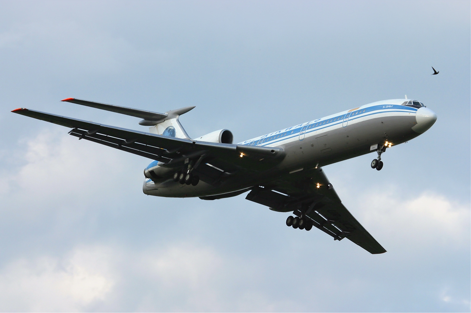 UC Airways Tupolev Tu-154B-2